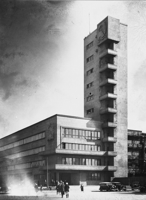 Photograph of Kirovsky Town Hall, St Petersburg, taken in the mid-1930s. Constructivist style architecture in Saint Petersburg.